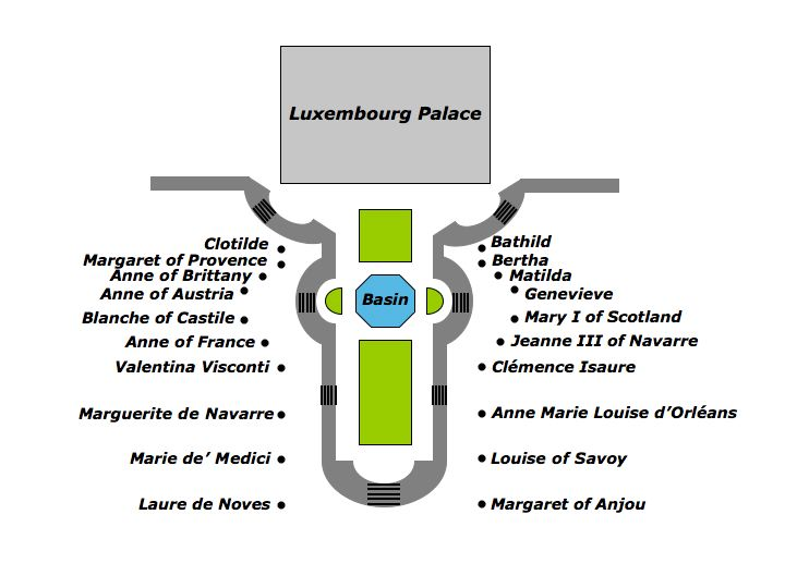 Map of the statues Reines de France et Femmes illustres in the Jardin du Luxembourg in Paris